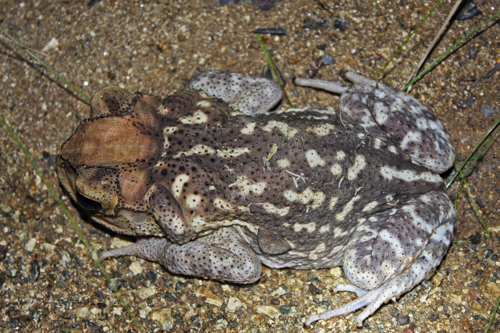 Along a pine forest trail above Playa Maguana, Baracoa area.